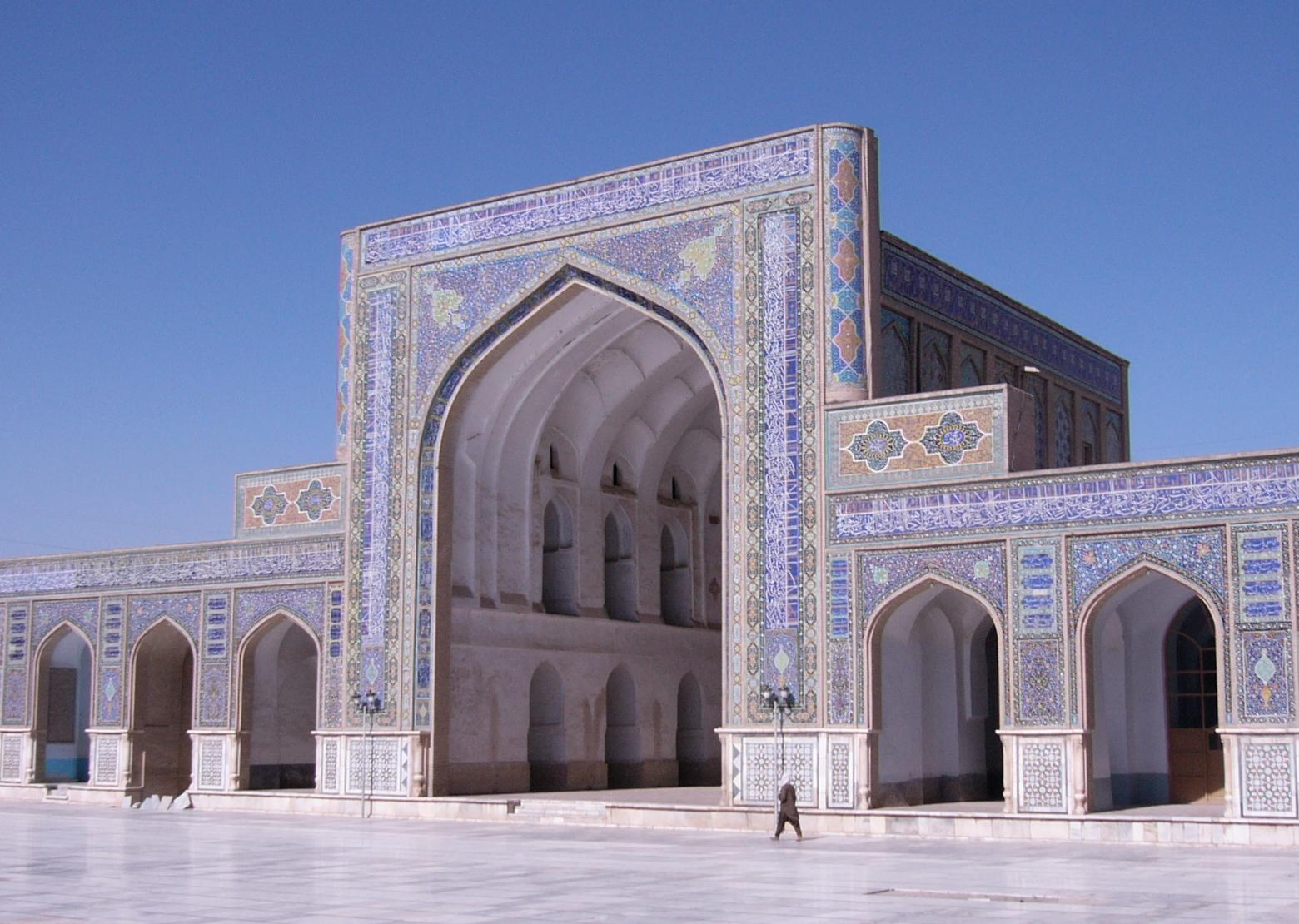 Friday Mosque in Herat, Afghanistan